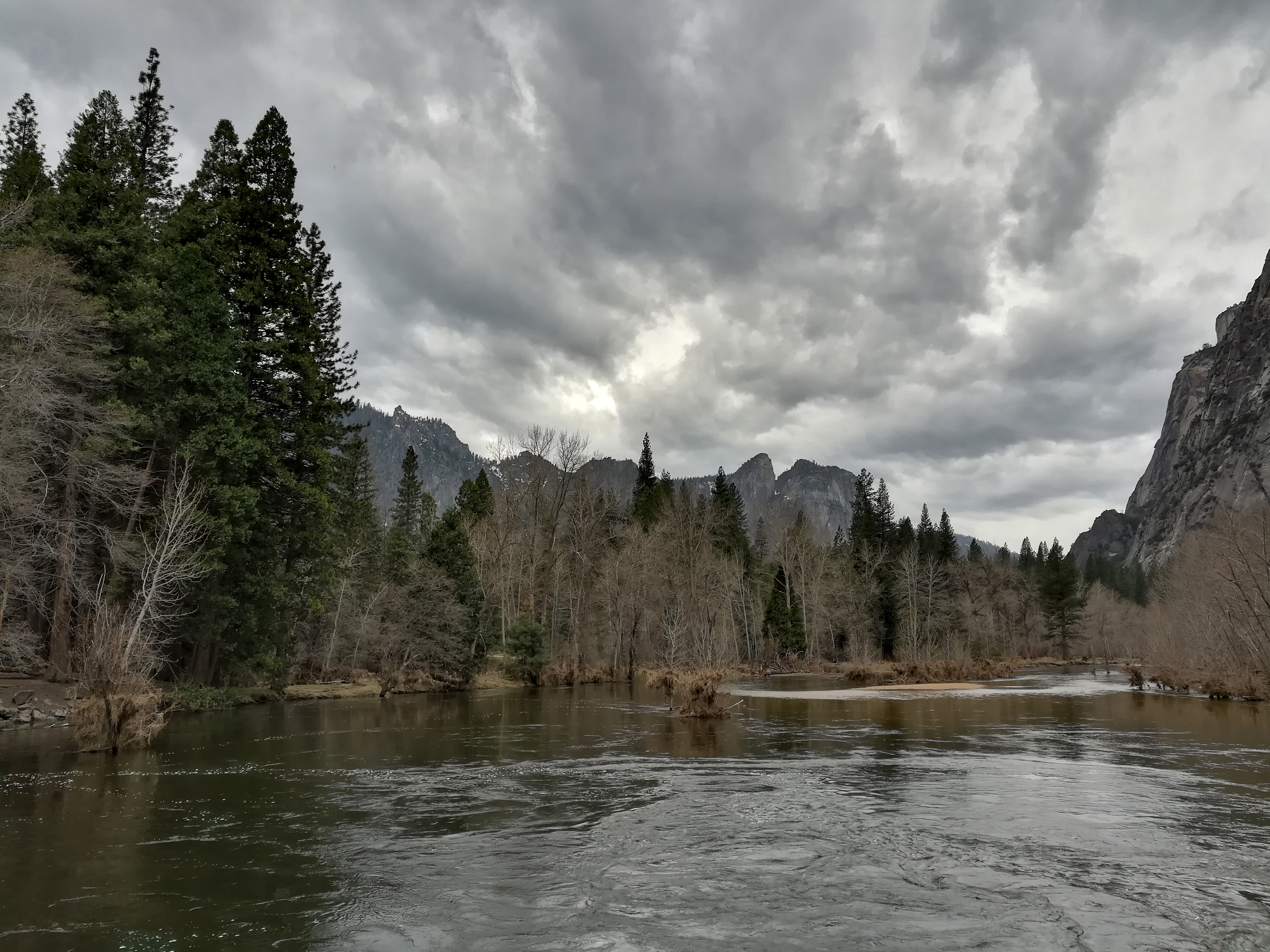 Yosemite Nationalpark Valley